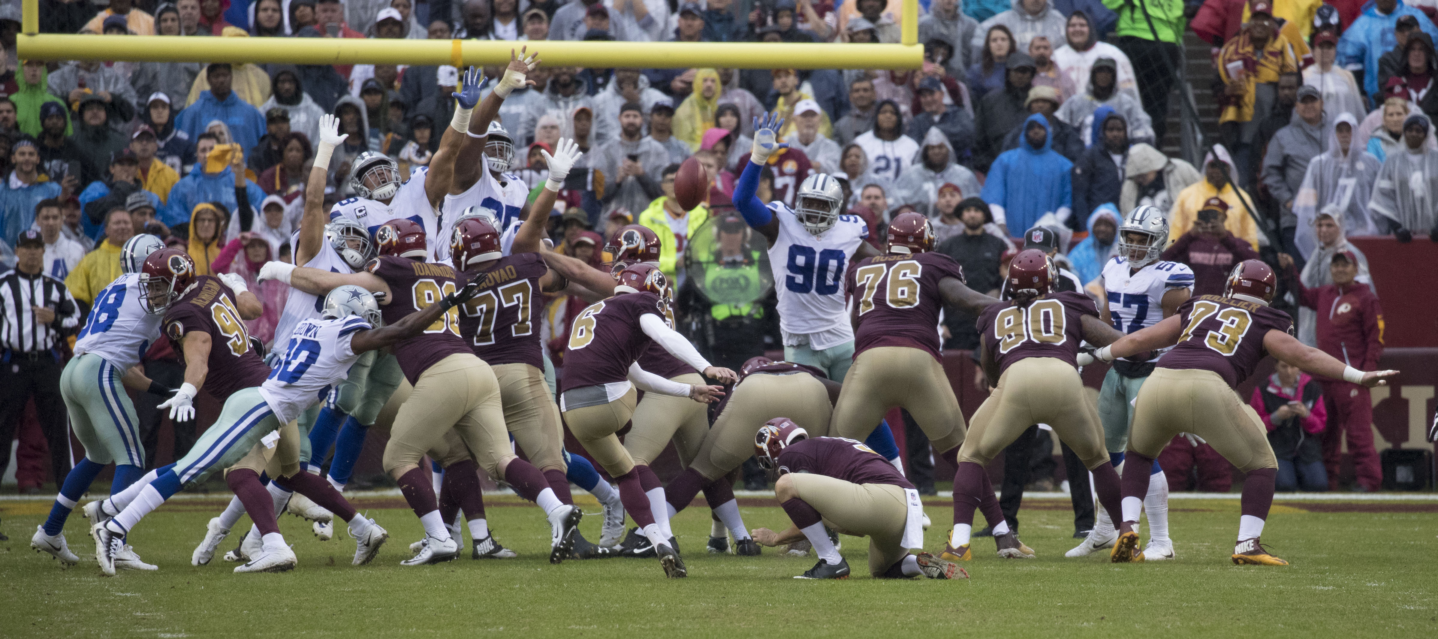 Cowboys at Redskins 10/29/17